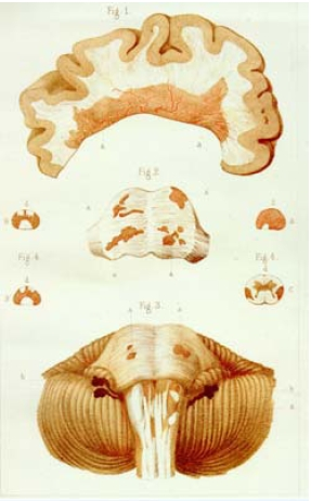 Charcot's first illustration of multiple sclerosis